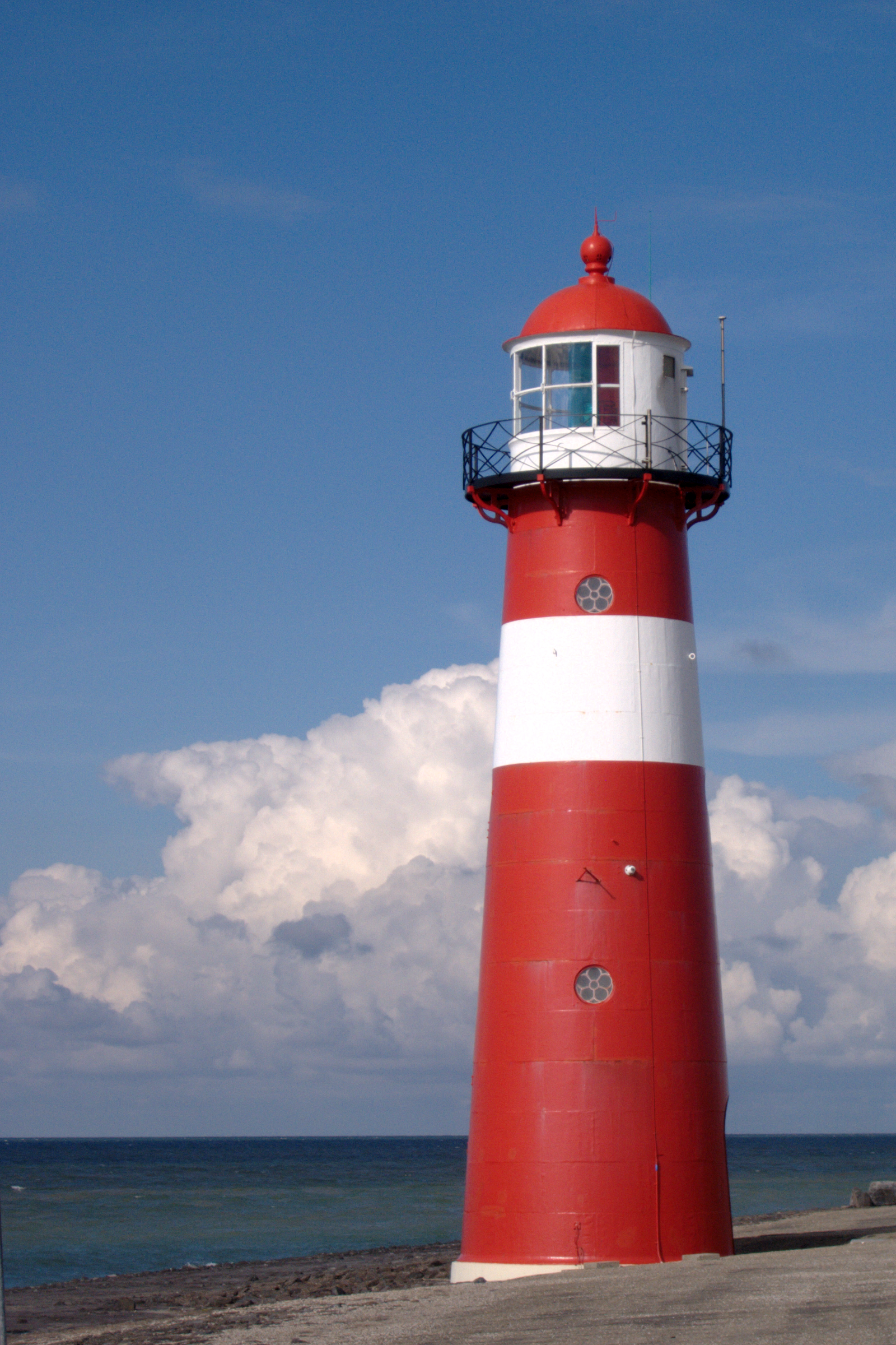 The short lighthouse of Westkapelle, the Netherlands.